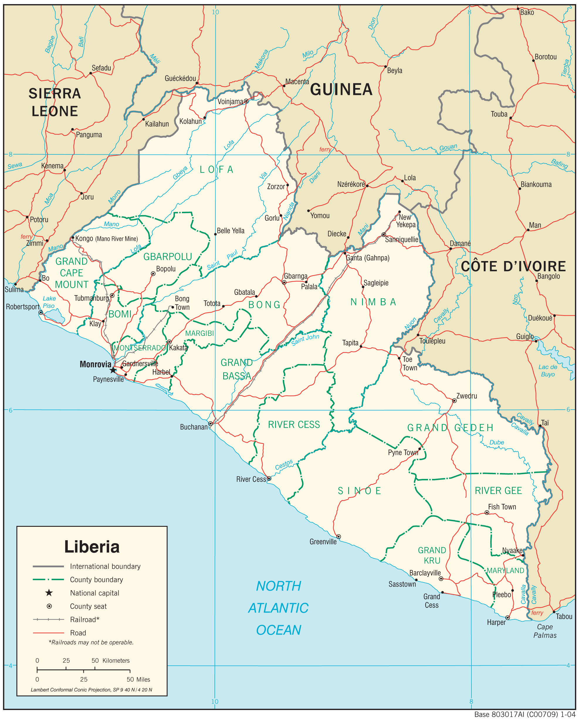 Transport system in Liberia, 2004.